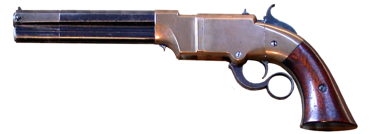 Volcanig repeater mechanism, here as a pistol. Edited from the file File:Volcanic.JPG by Homo:homo